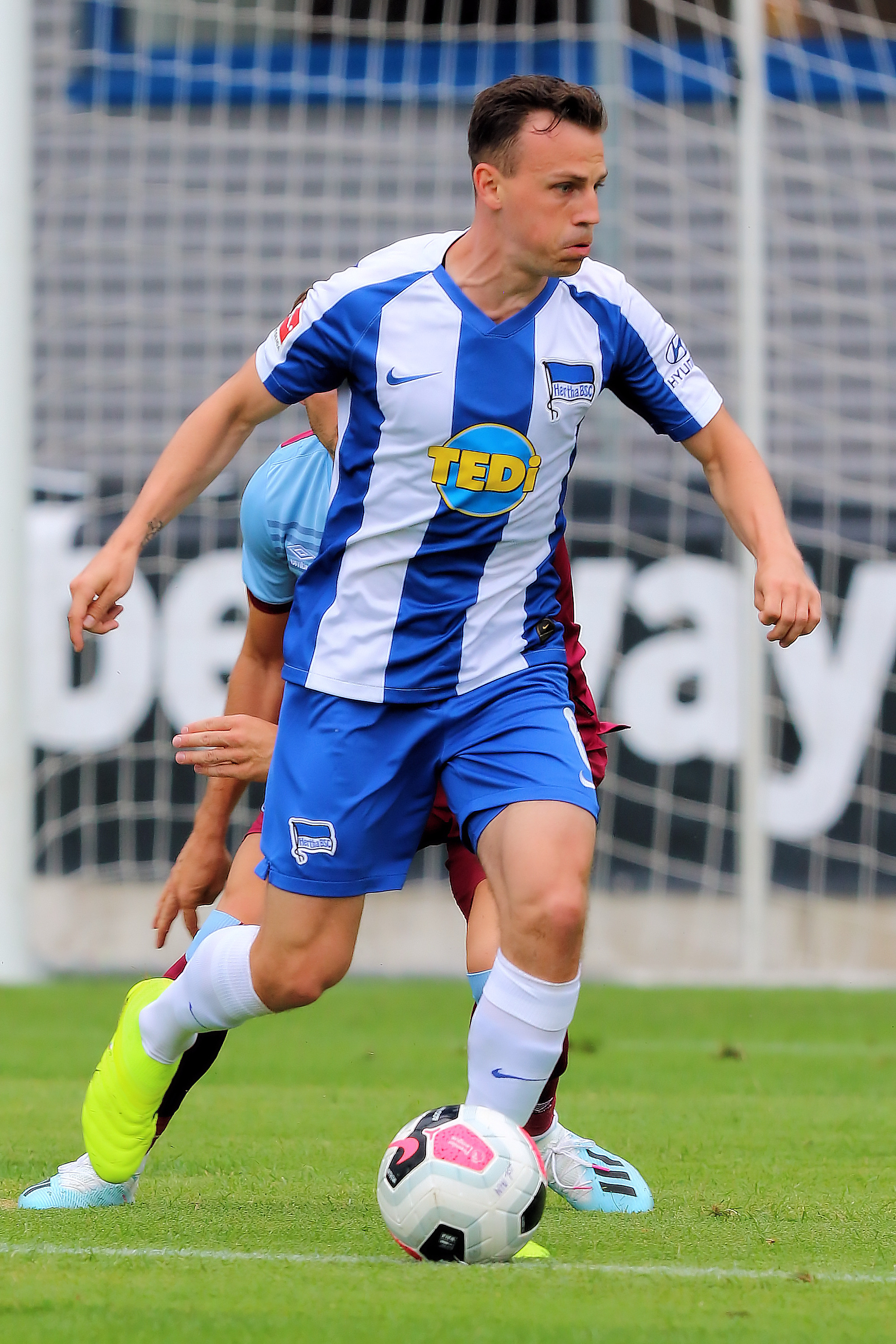 Friendly match Hertha BSC (blue-white shirts) vs. West Ham United (red-blue shirts) at 31-07-2019 3-5 (3-2) in the Sonnenseestadium in Ritzing. – The photo shows Vladimír Darida (Hertha BSC).